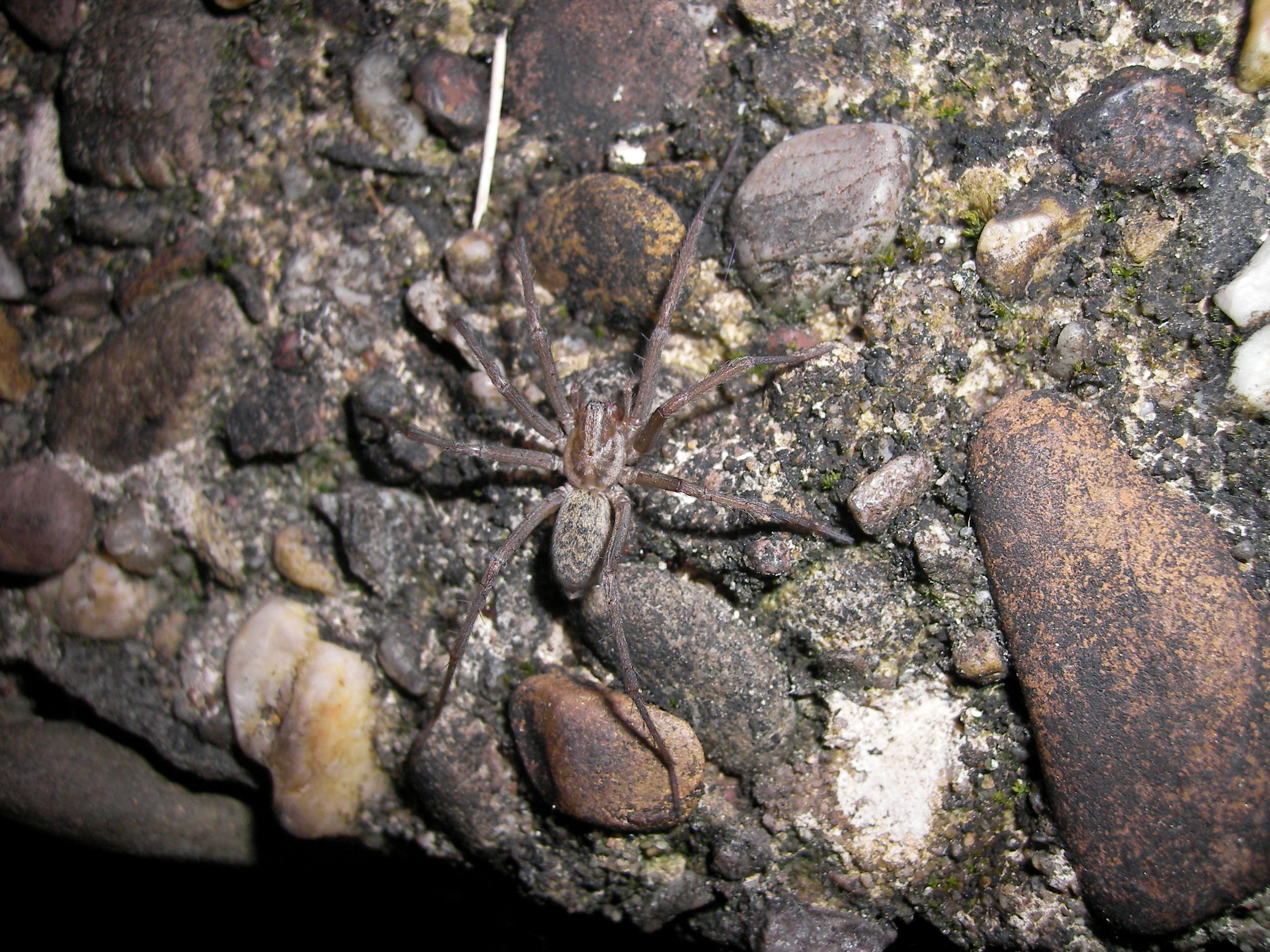 Tegenaria atrica